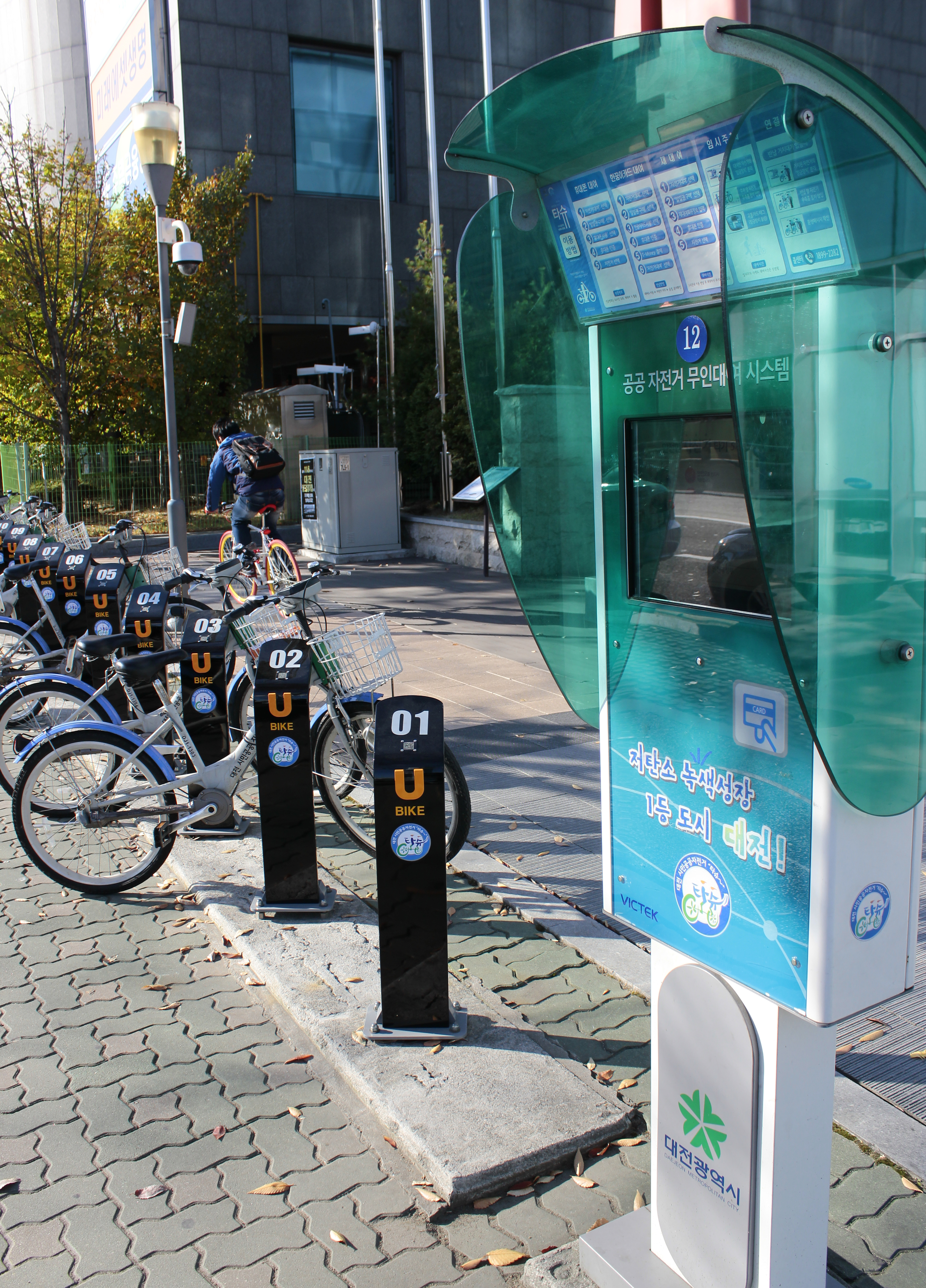 Dajeon Public Bicycle Tashu at Government Complex Station